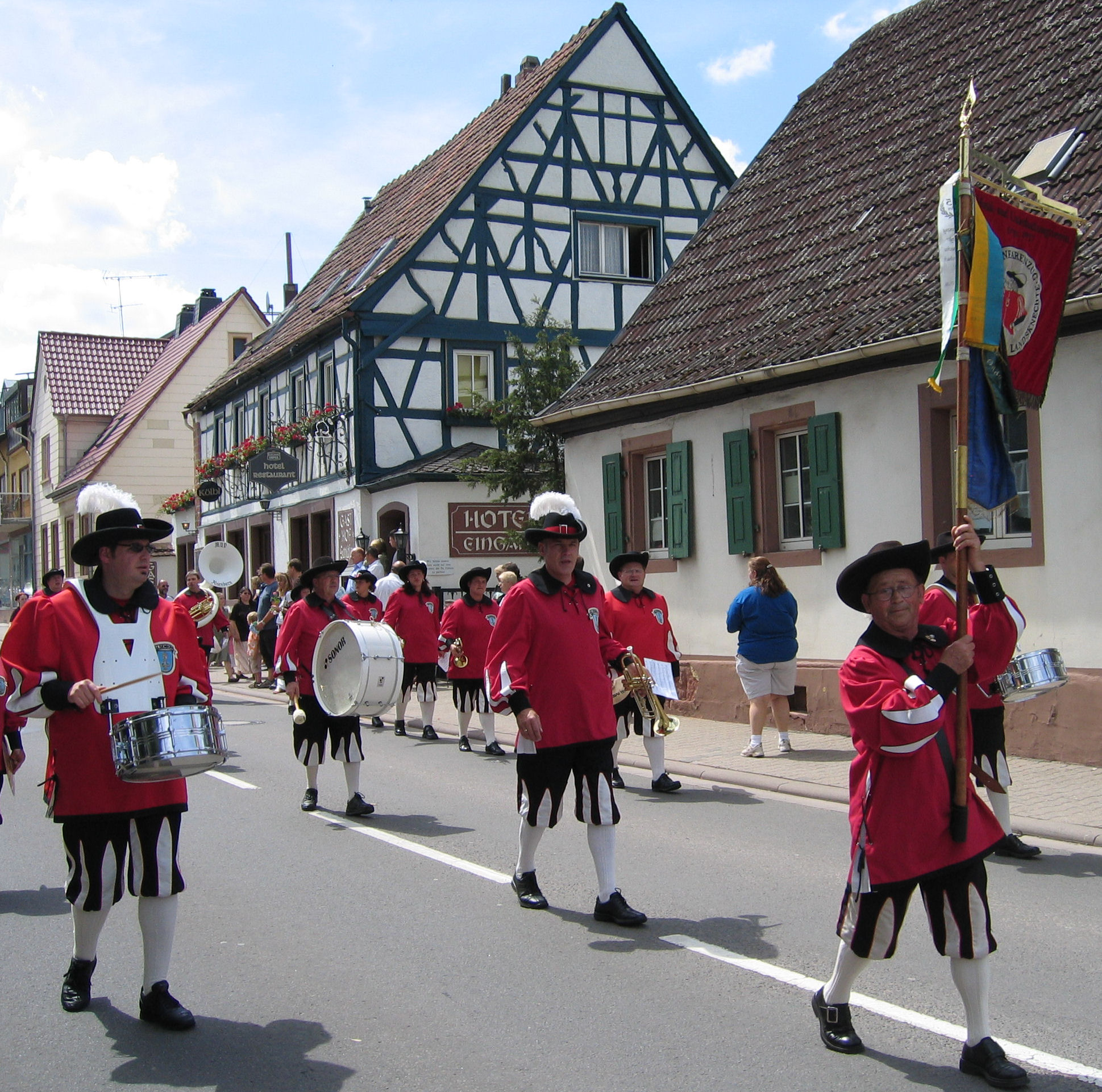 view of Enkenbach, Germany